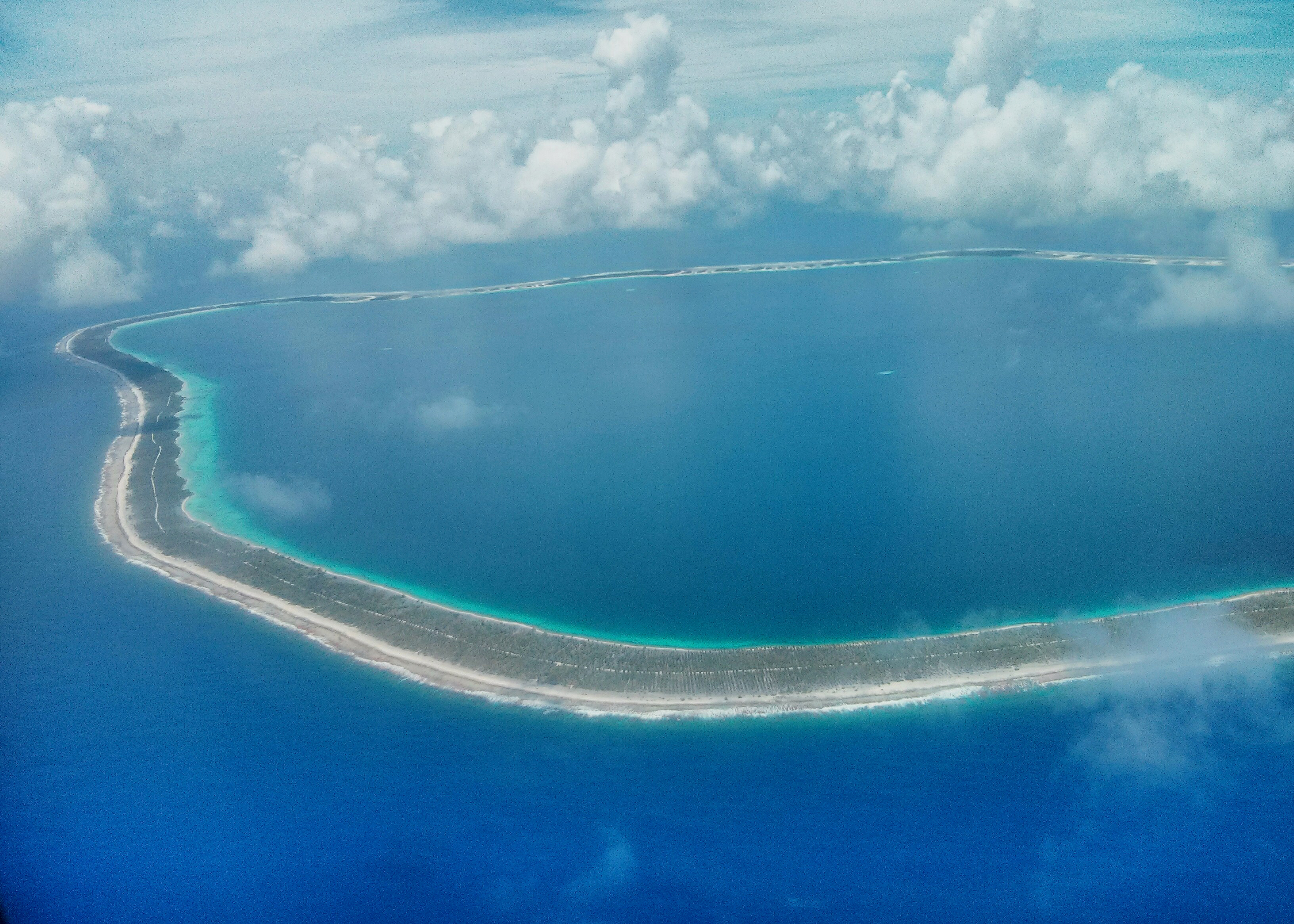 Overview of Tureia on December 31 2013.